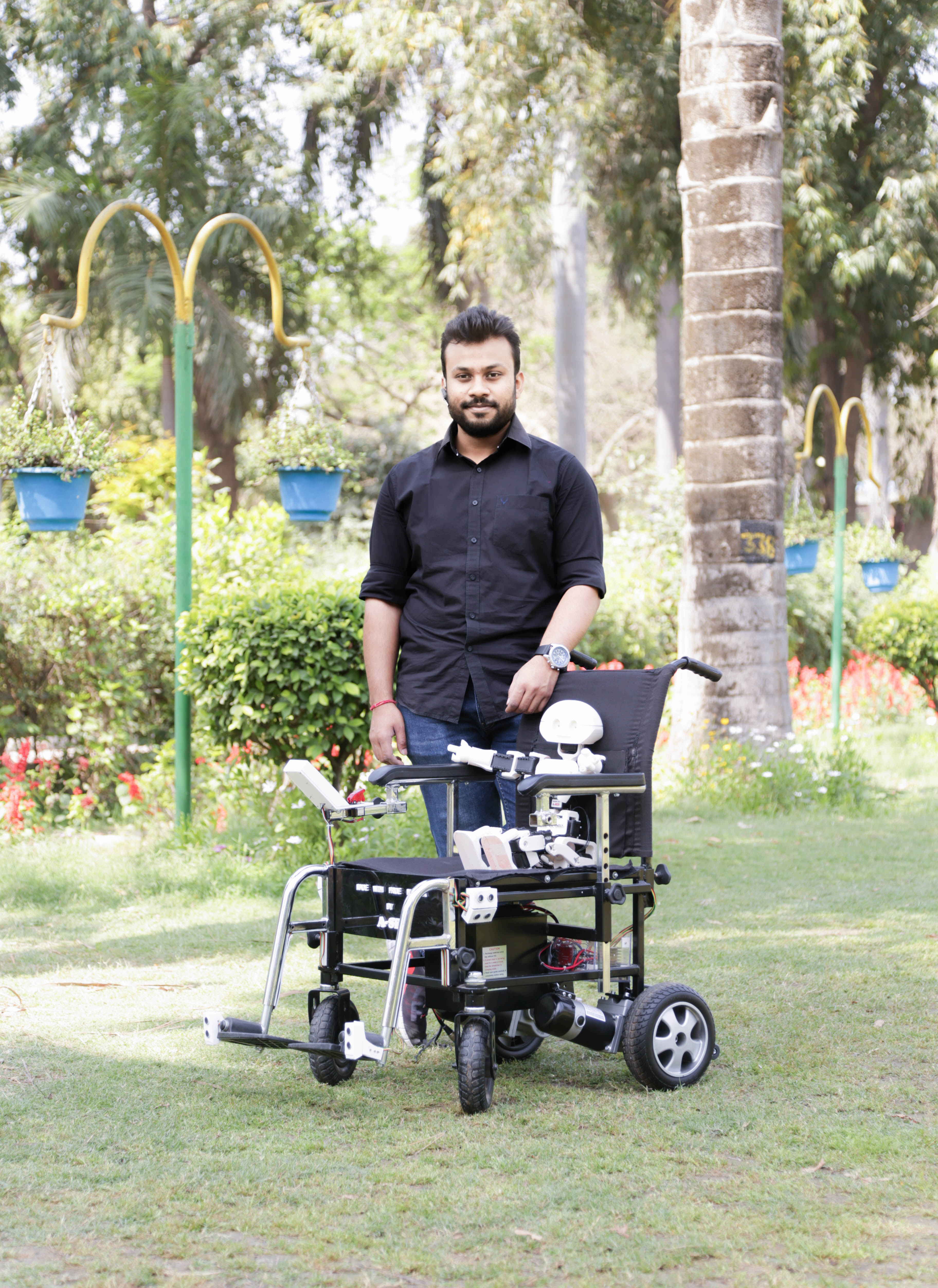 Diwakar Vaish, the inventor of the wheelchair during press ceremony